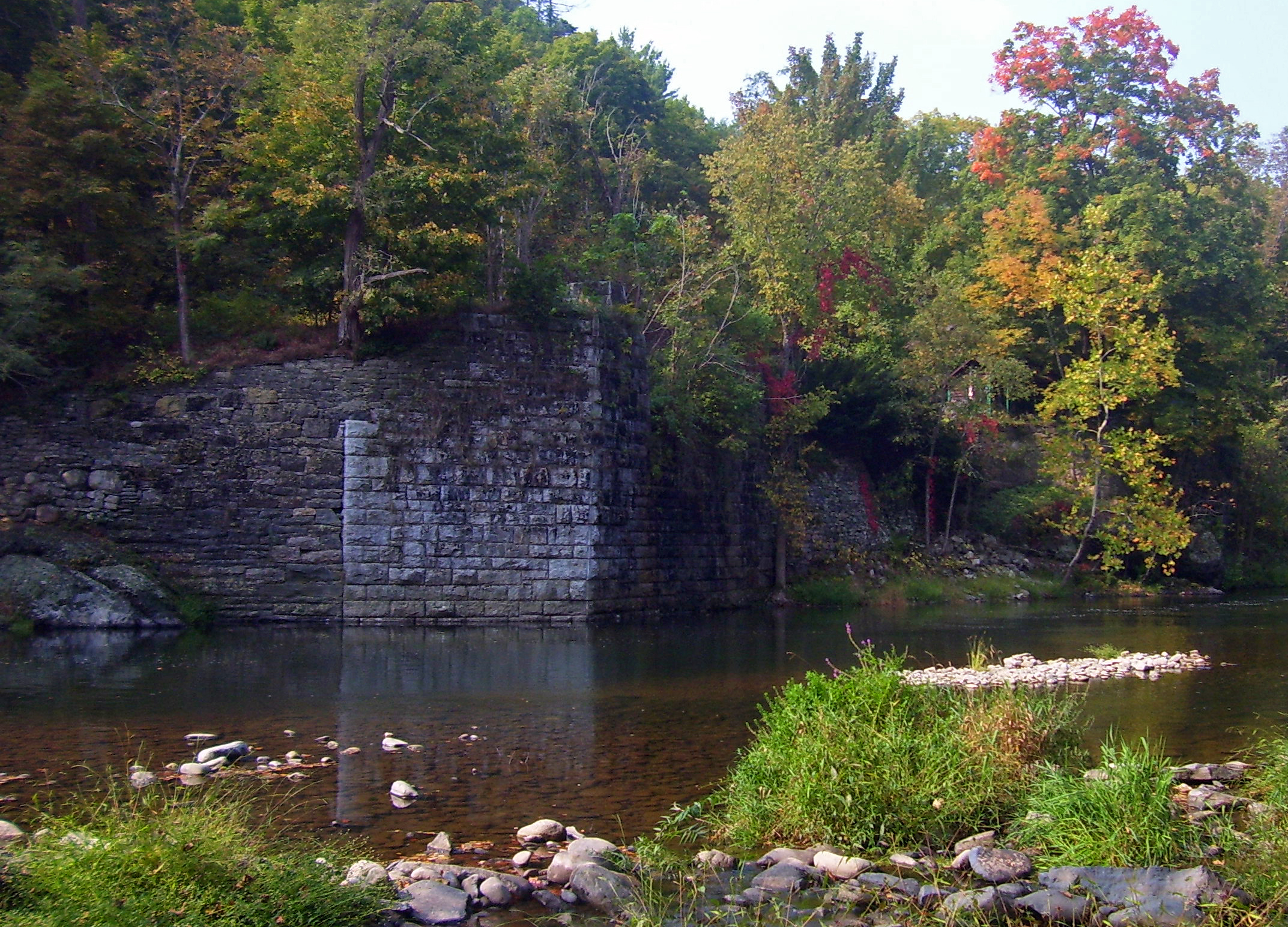 Remaining abutment from aqueduct carrying Delaware and Hudson Canal over Neversink River near Cuddebackville, NY, USA